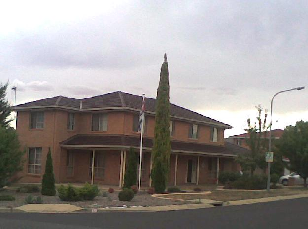 Embassy of Cuba in Canberra